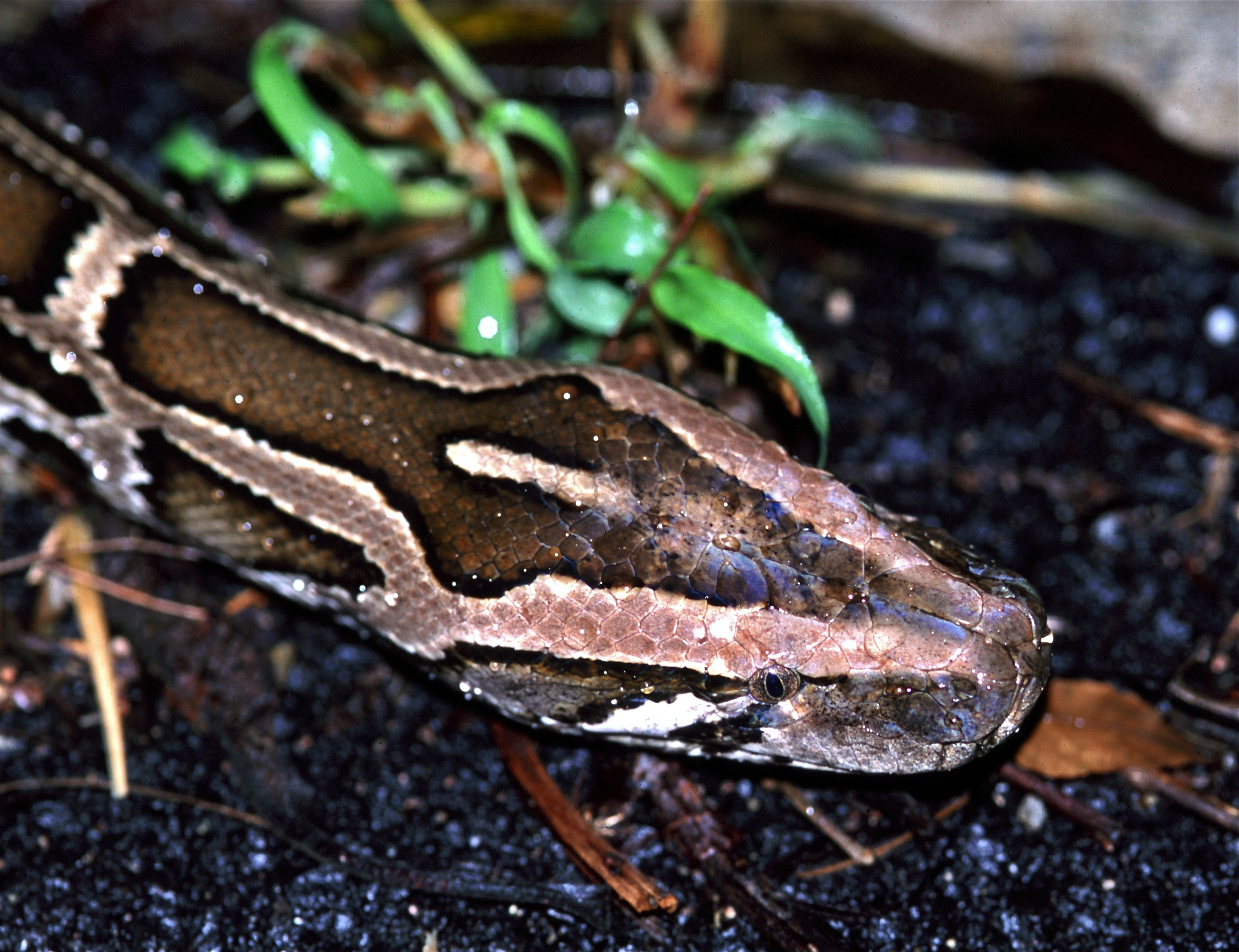 Khao Yai NP, THAILAND Scanned Slide from 2003